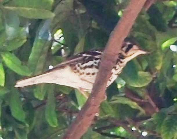 Zoothera guttata at Athlone Park, Amanzimtoti, South Africa.